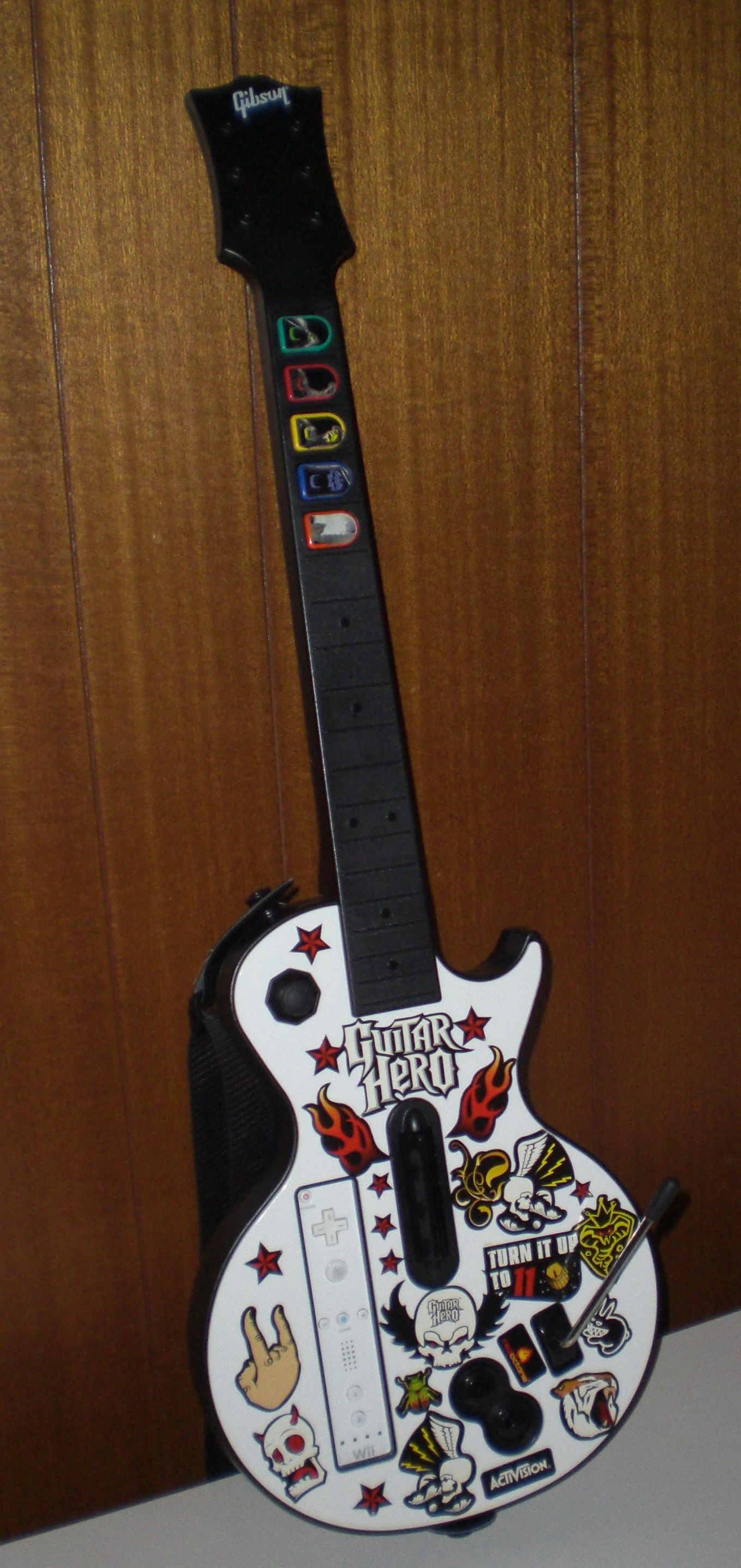 A picture of the Guitar Hero III Wii controller, complete with stickers.